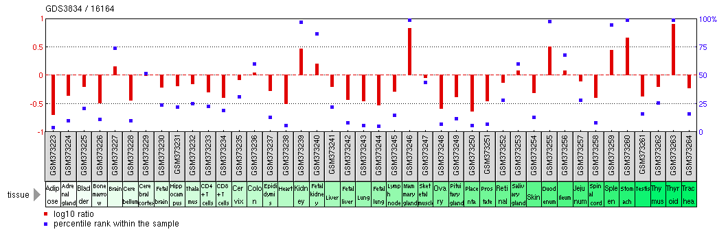 Expression profile of TMEM171 in a selection of normal tissues. Obtained from NCBI GEO.